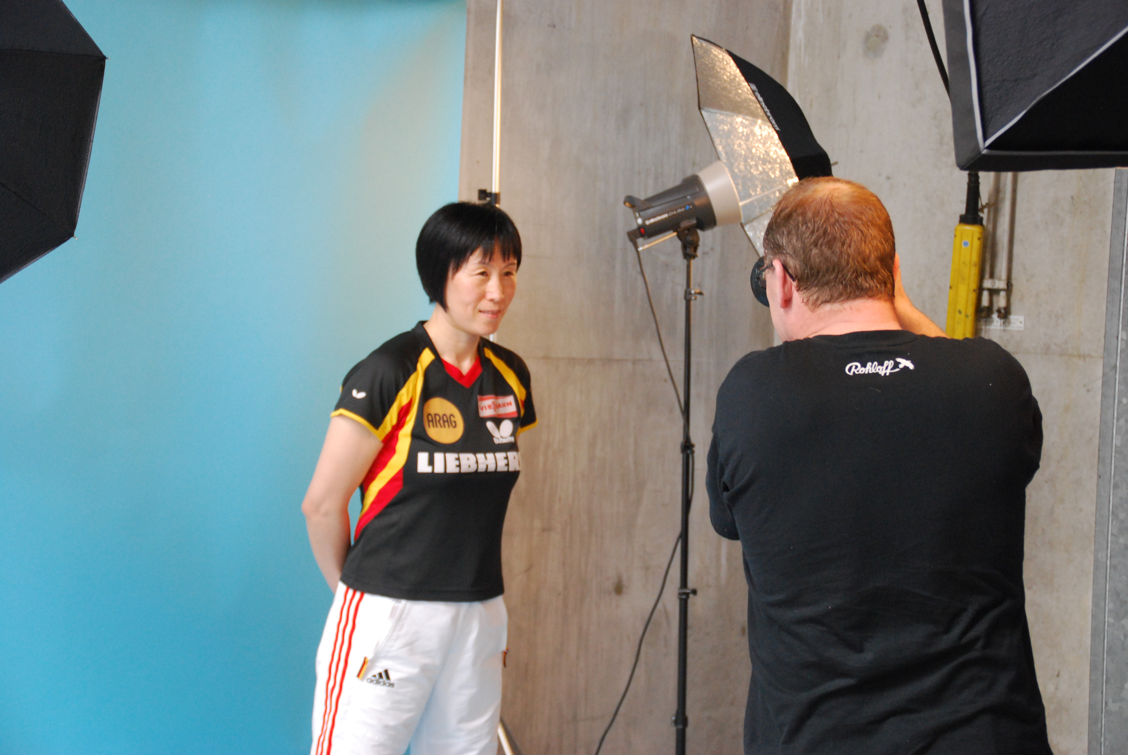 Outfitting the Olympic team of Germany 2012